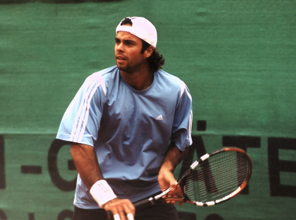 The Chilean tennis player Fernando González at the public training for the World Team Cup in Düsseldorf, Germany, 2005.